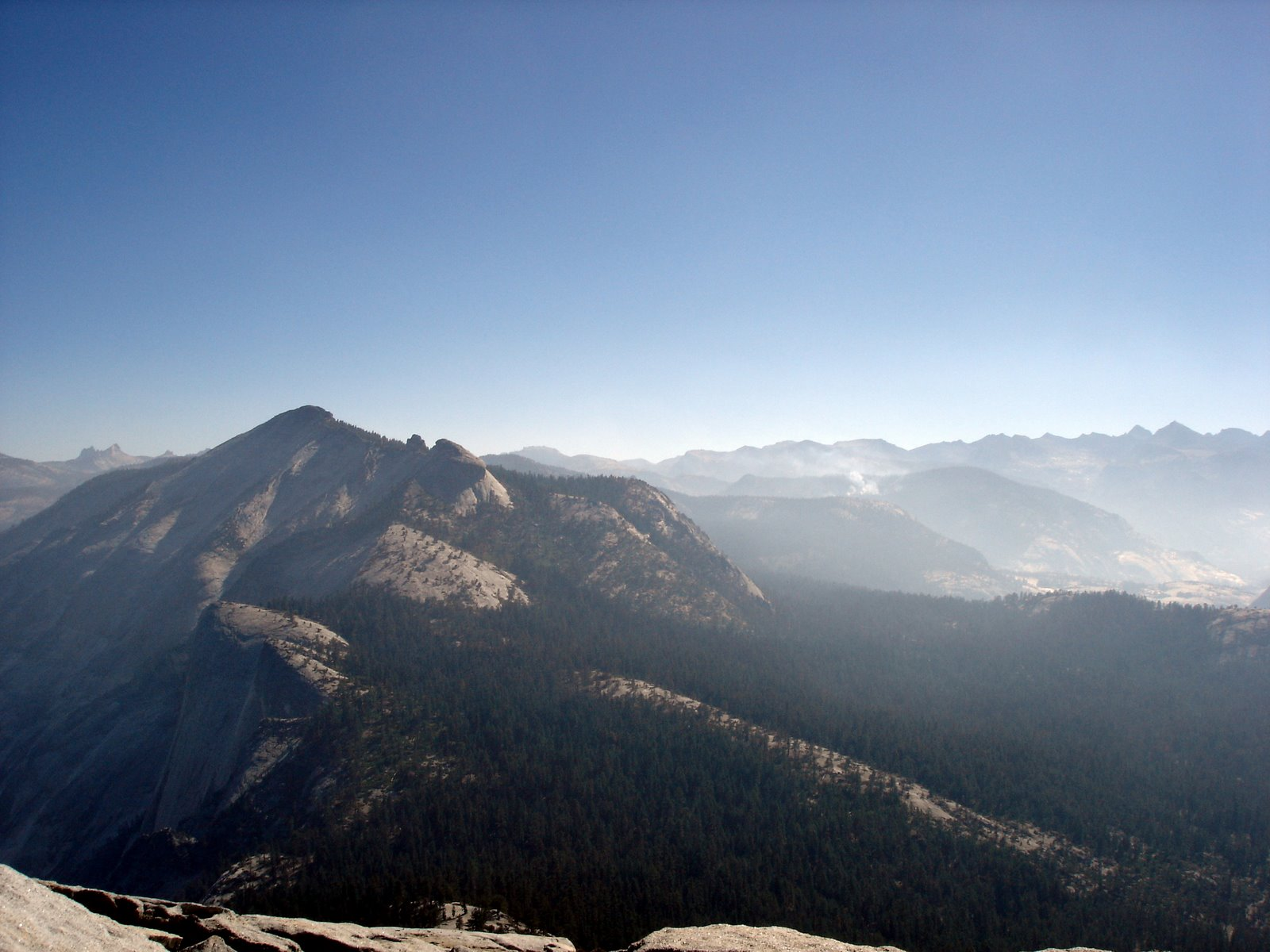 I took this picture.